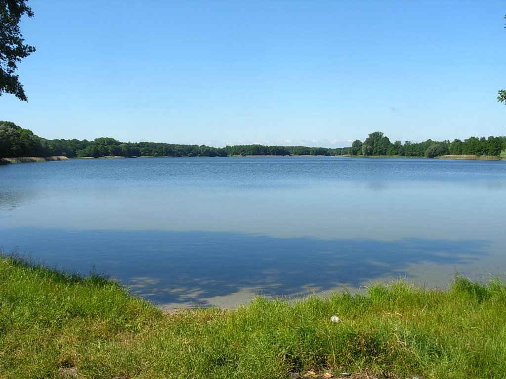 Wierzchucińskie Duże Lake